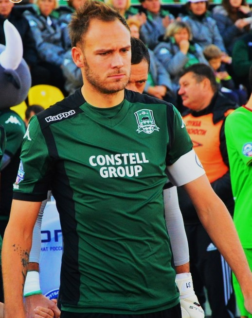 Andreas Granqvist